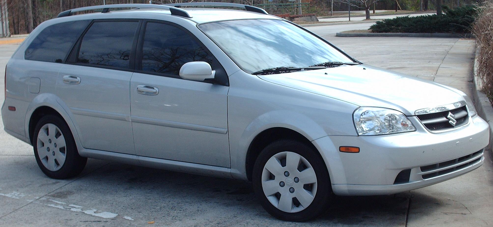 2006-present Suzuki Forenza station wagon photographed in Georgia, USA.